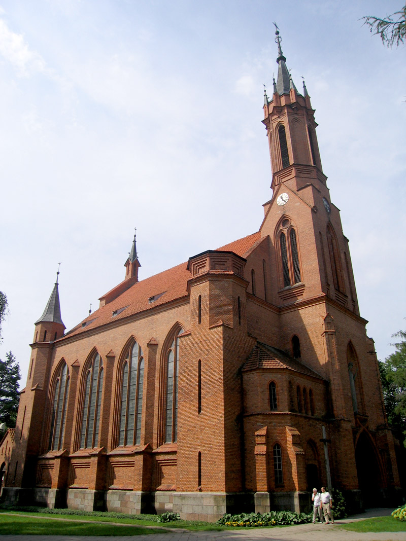 Church of Saint Mary's Scapular in Druskininkai, Lithuania